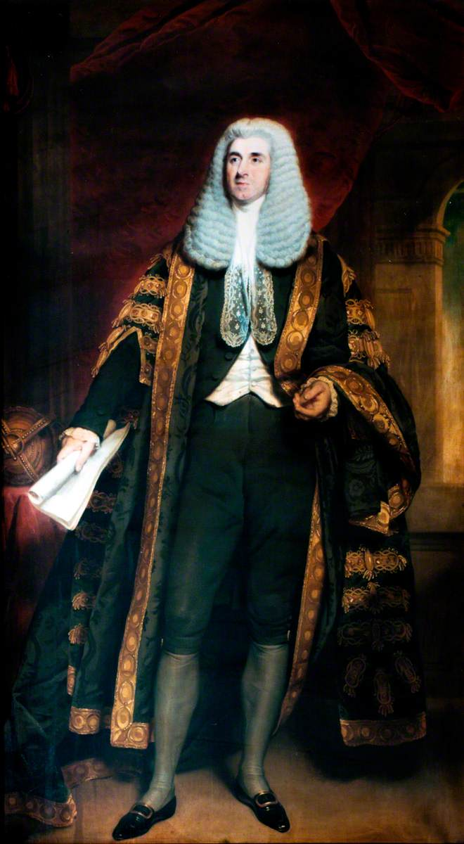 Portrait of Charles Shaw-Lefevre (1794-1888), Speaker of the House of Commons